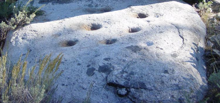 Grinding slab from California showing metate-like dimples on a rock outcropping used to grind acorns.